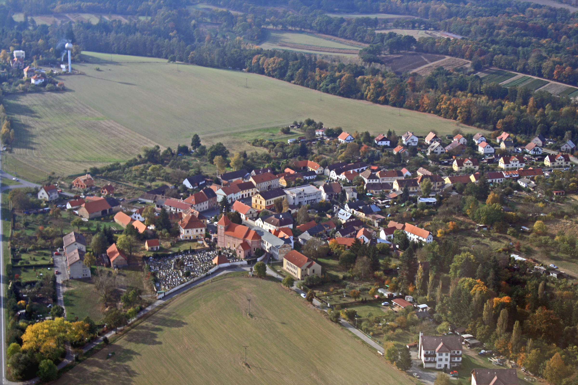 Air photo of Orlík nad Vltavou in South Bohemia, Czech Republic